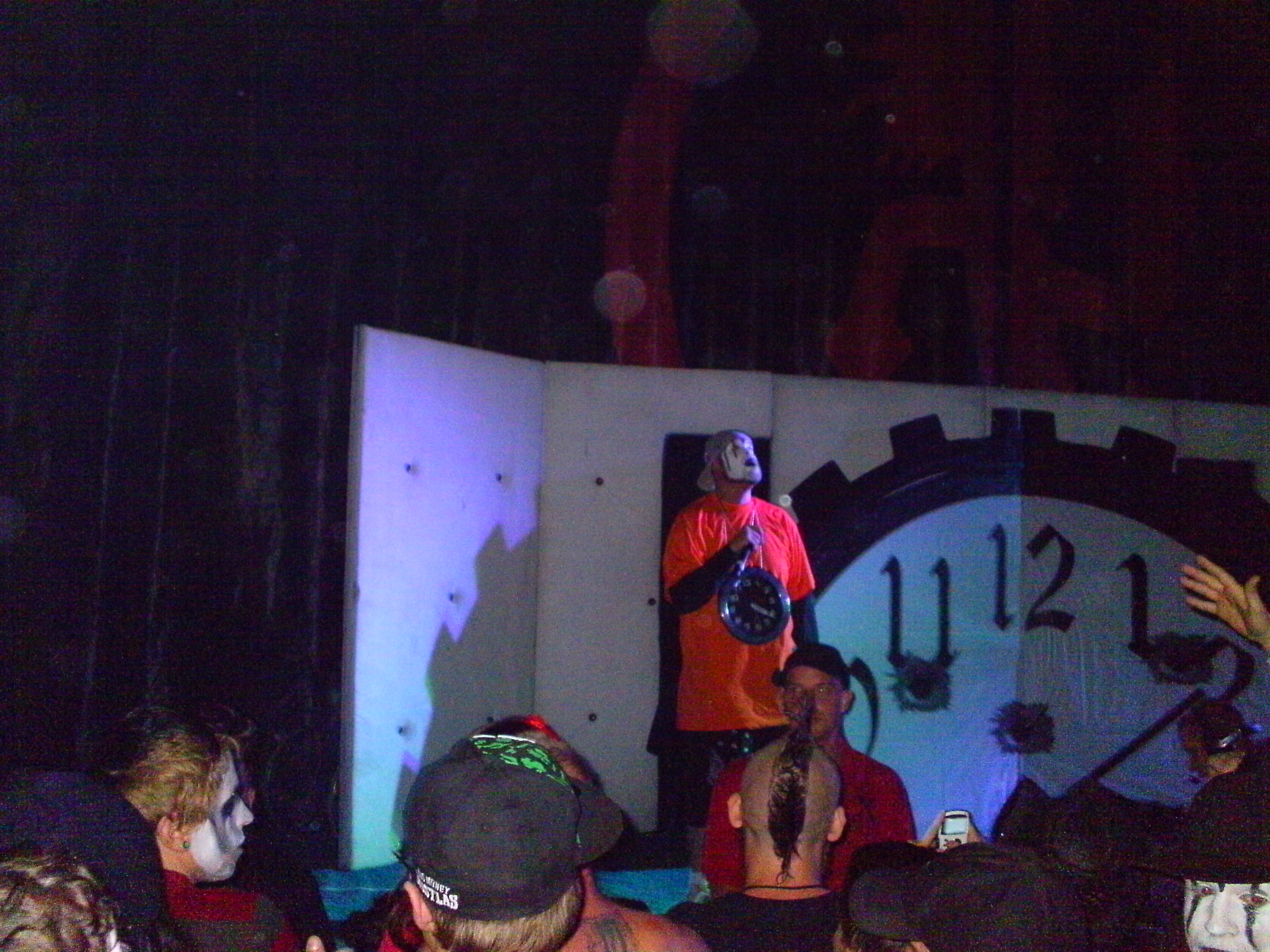 Blaze Ya Dead Homie performing at Hallowicked 2011 at the Fillmore in Detroit, Michigan